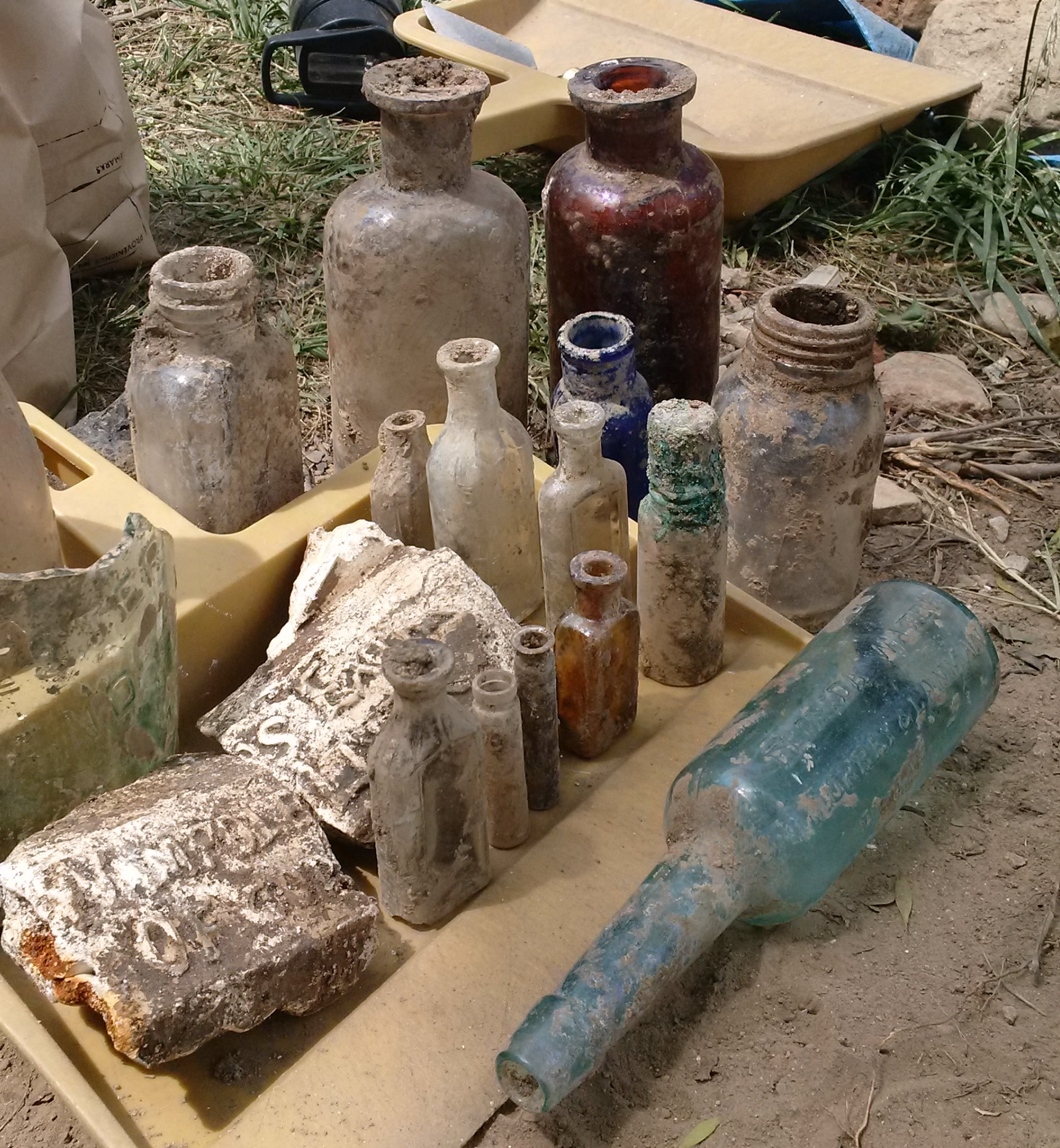 Bottles excavated at the Niagara Apothecary, at Niagara-on-the-Lake, Ontario, Canada.